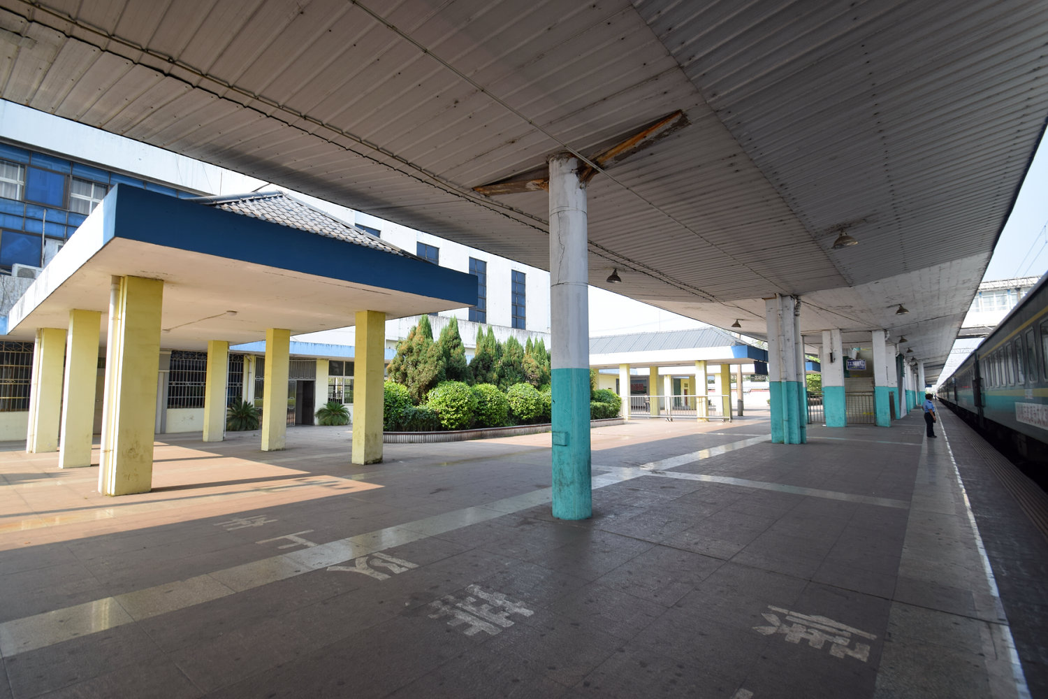 Platform 1 of Zhangshu Railway Station, view towards Tuochuanbu Railway Station.